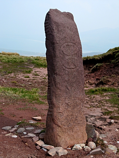 Ogham Stone from Faha, Kerry, Ireland; with added cross symbol